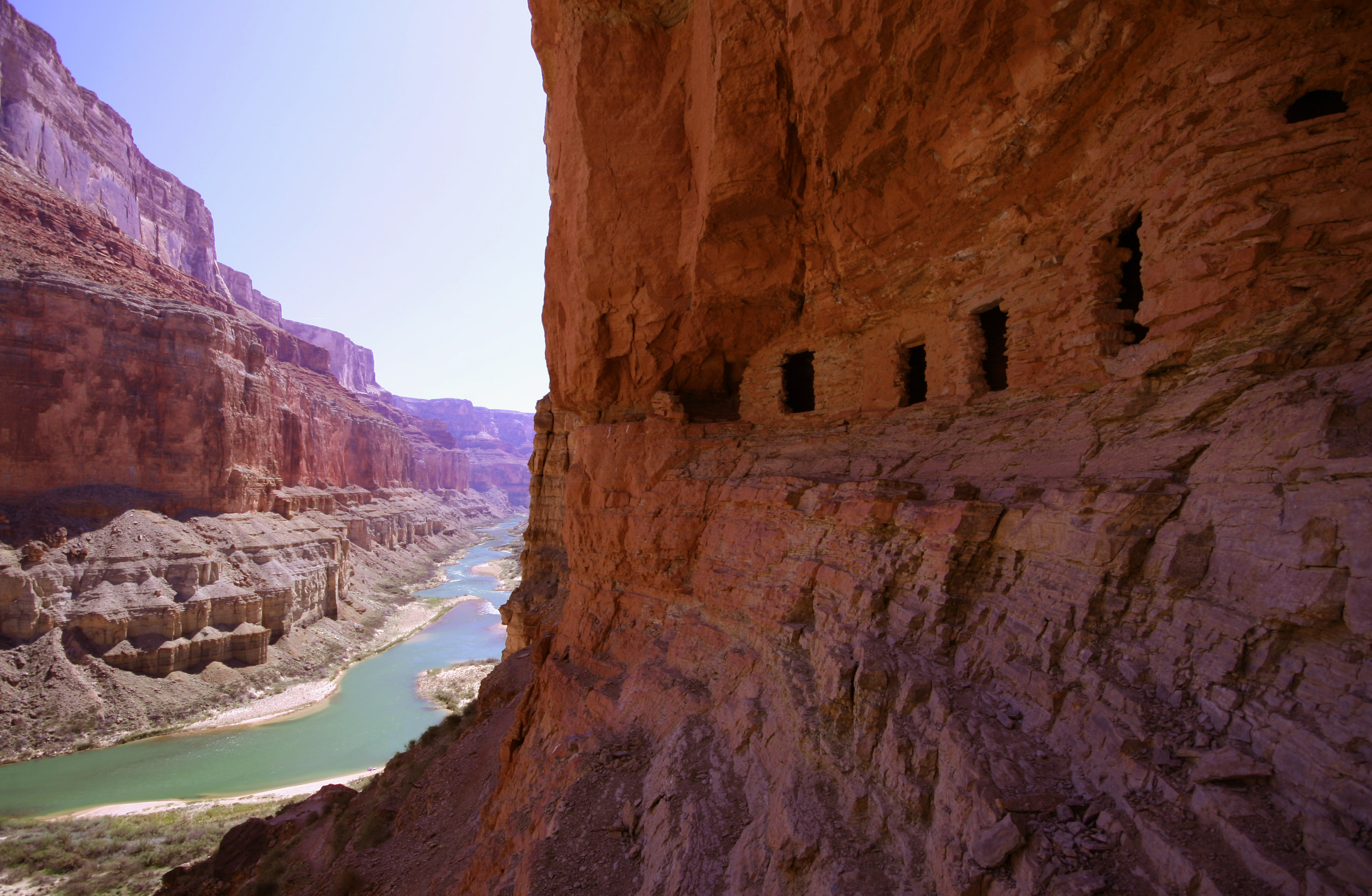 Ancestral Puebloan granaries high above the Colorado River at Nankoweap Creek, Grand Canyon. (downstream in Marble Canyon, left bank (South Rim), with (red)-Redwall Limestone-(500 ft) above the (white)-Muav Limestone-(400 of 600 ft), then Colorado River, looking ~southwest, downstream.)